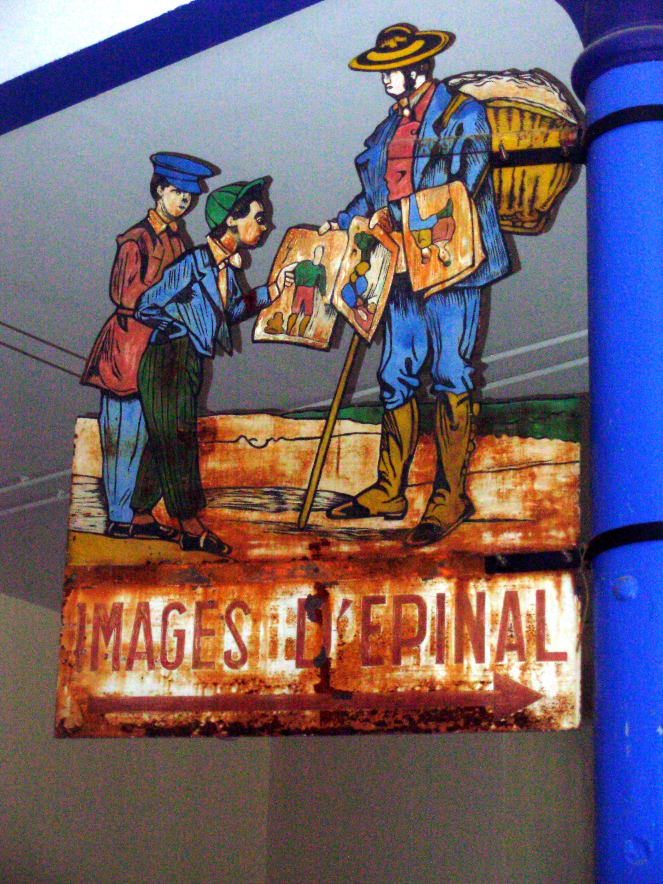 Old commercial signal from Image d'Epinal location